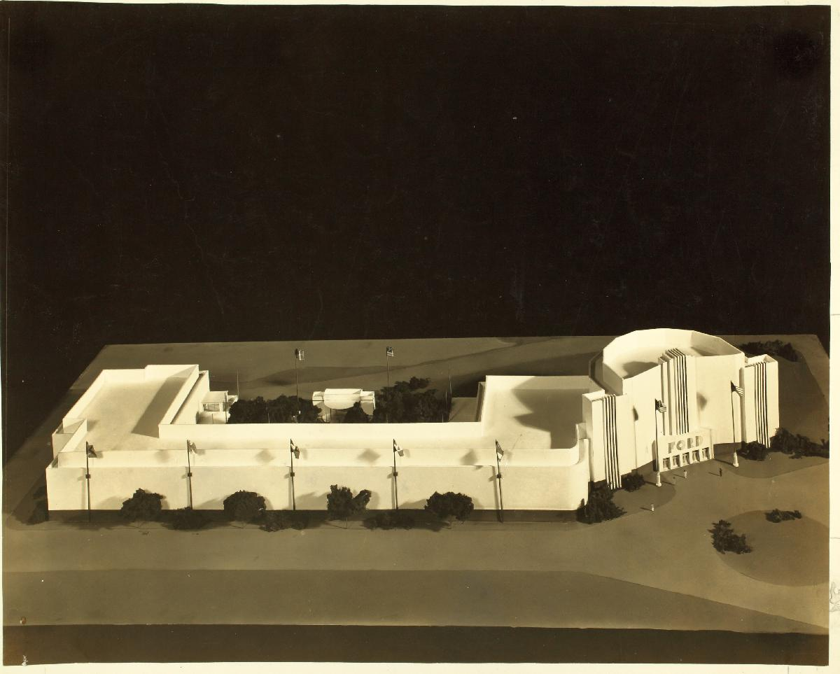 The Ford Building which was designed for the 1935 California Pacific International Exposition in Balboa Park. It currently is the home of the San Diego Air and Space Museum Repository: San Diego Air and Space Museum Archive